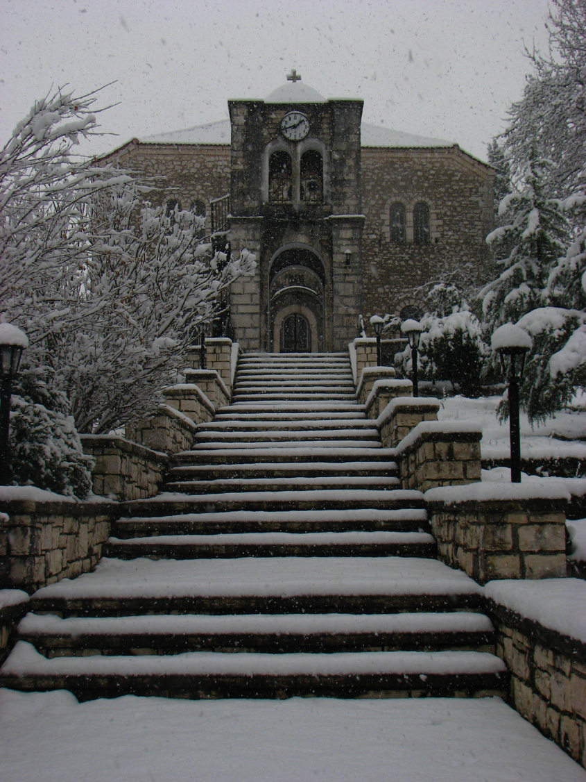 Church of Saint Nicholas in (Voshtina) Pogoniani.